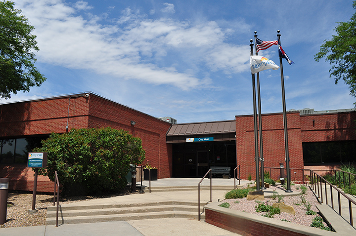 Picture of Northglenn City Hall